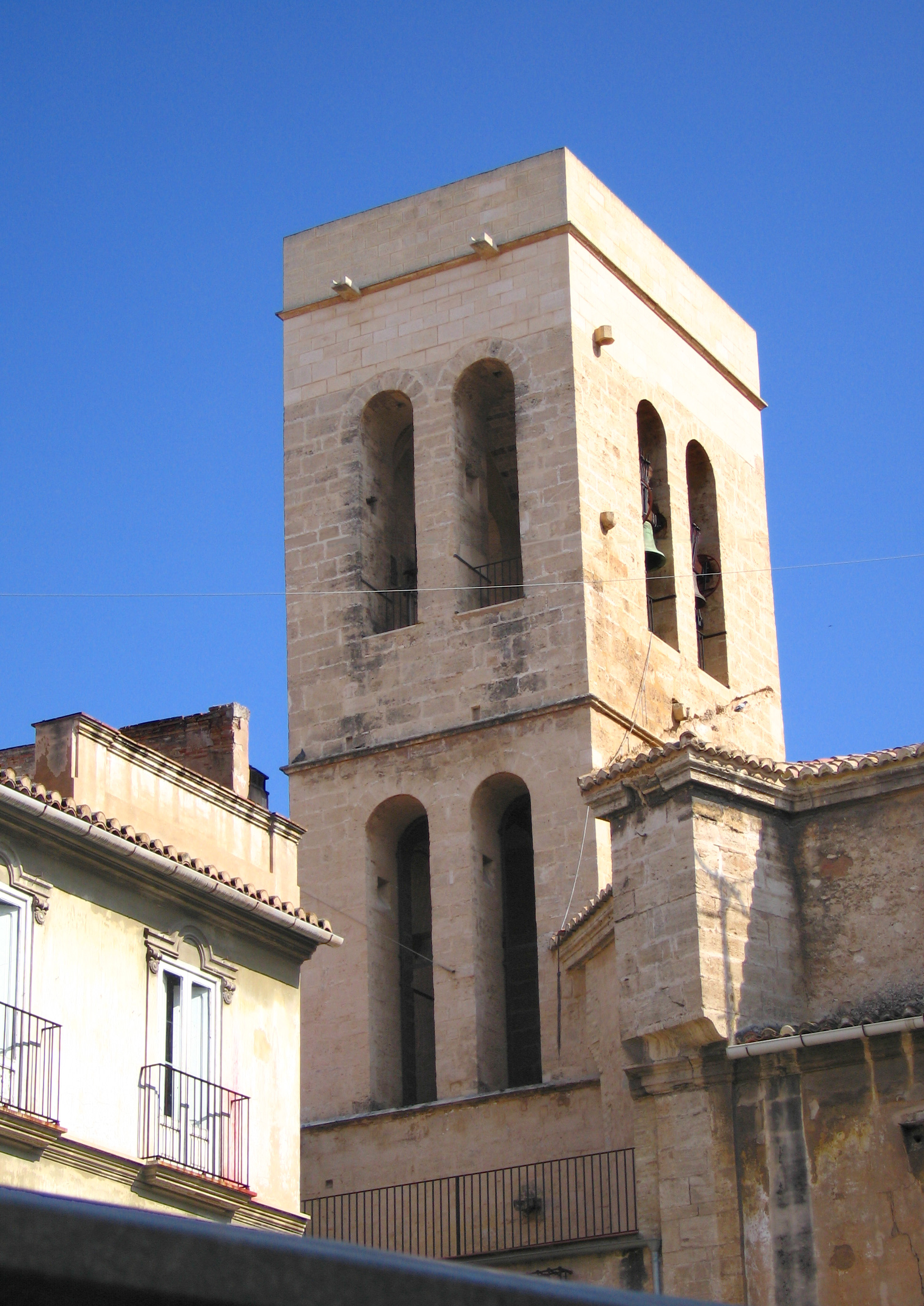 Església del Salvador (València)